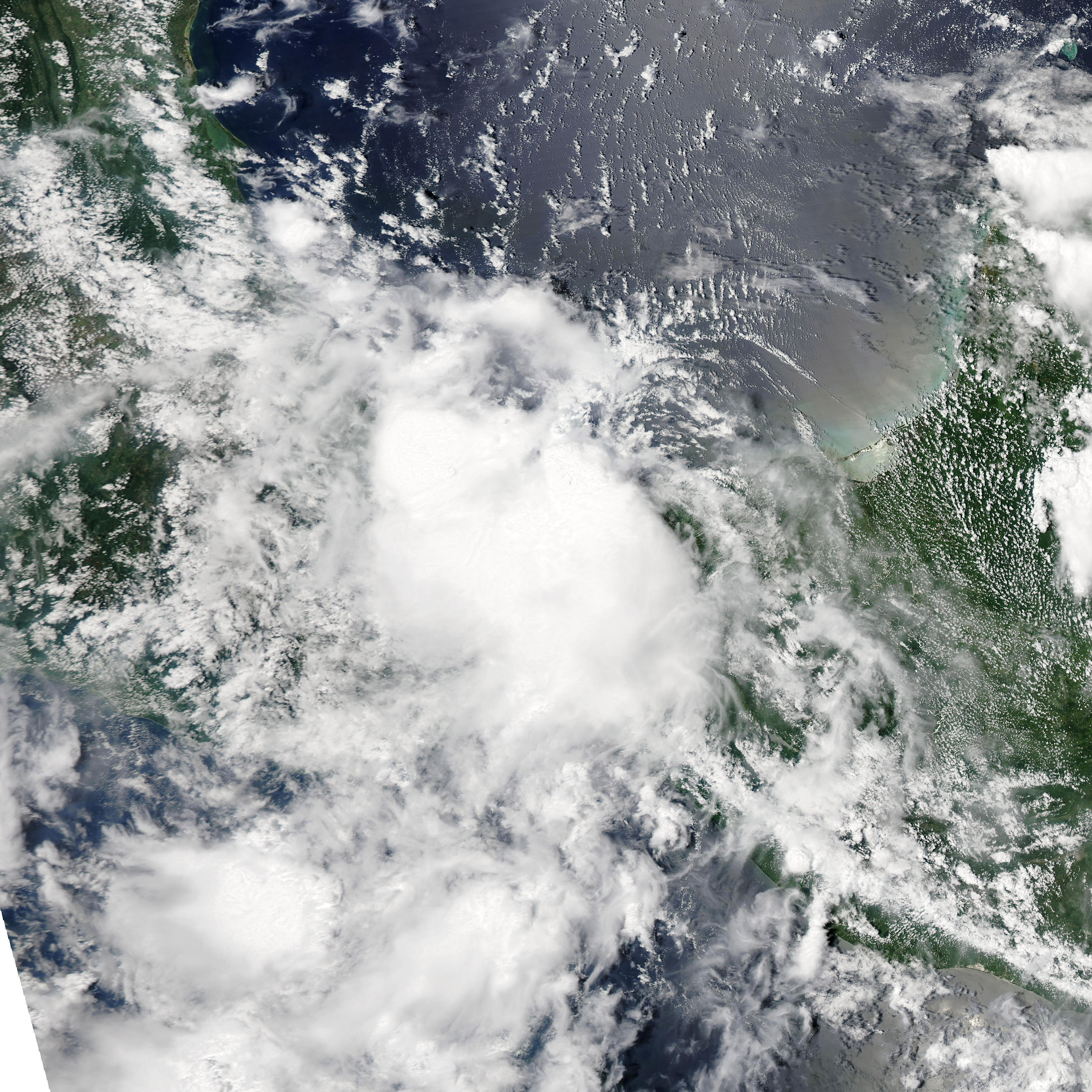 Tropical Depression Harvey after entering the Gulf of Mexico on August 21, 2011.